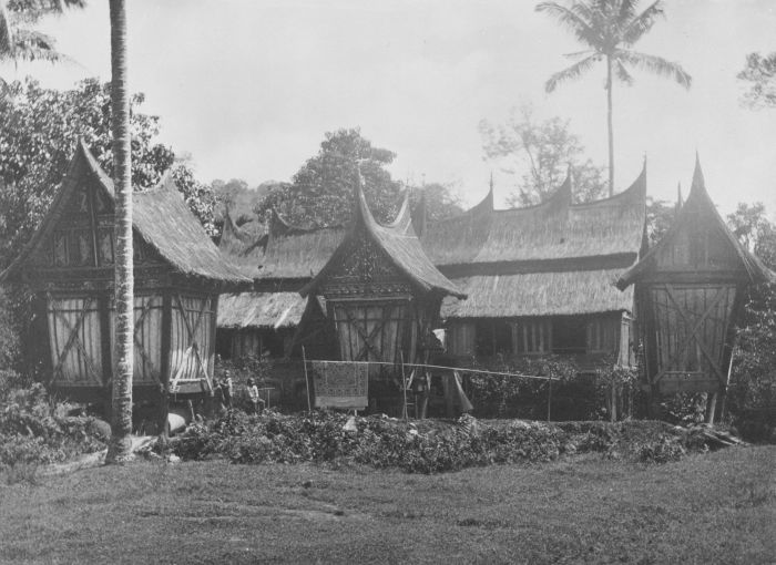 Minangkabau house with rice sheds